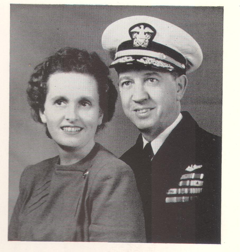 Photo of Admiral Verge and his Wife Martha in